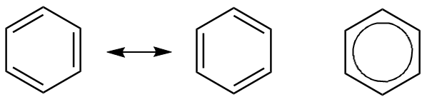 benzene resonance